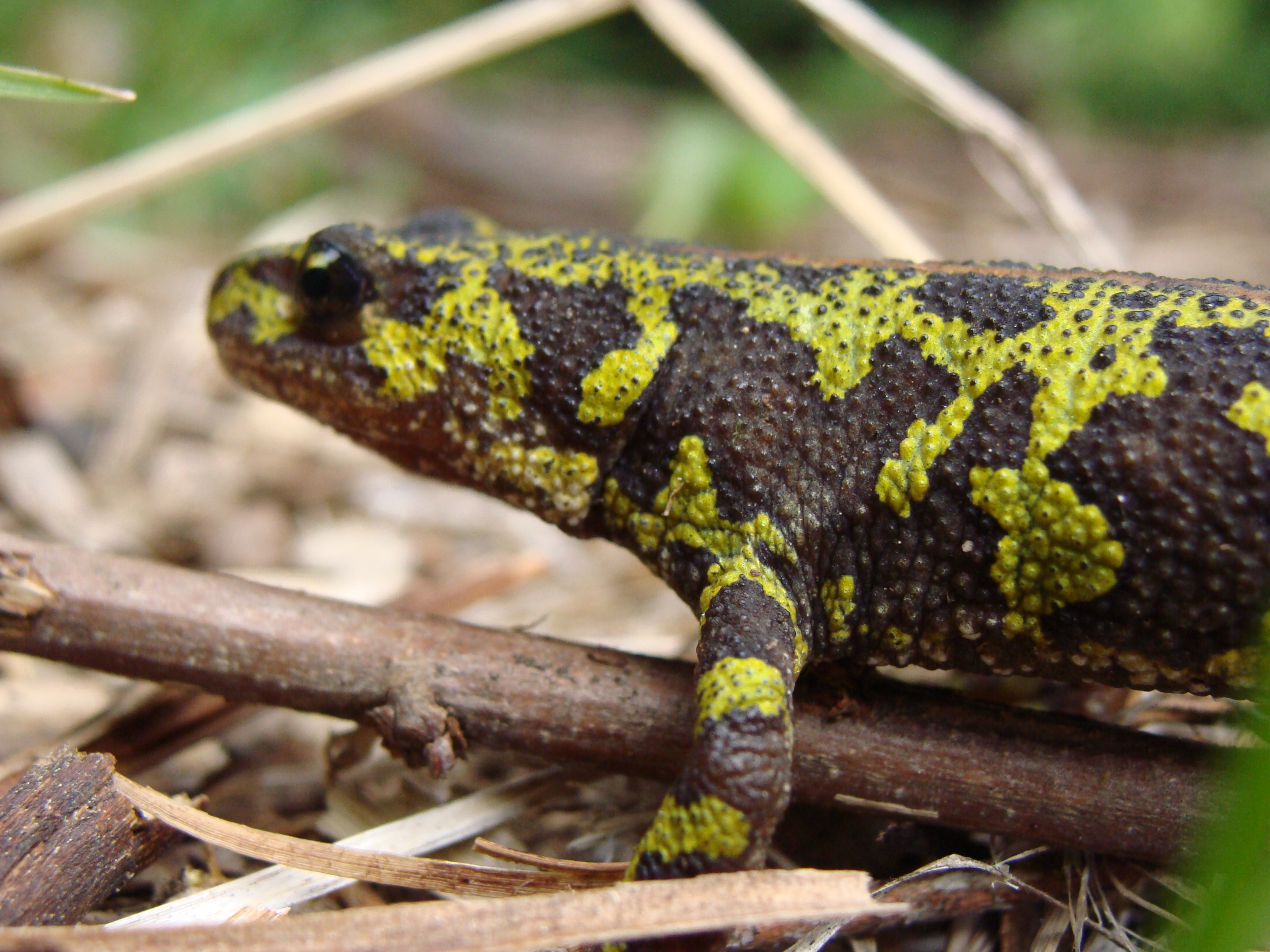 Marbled Newt (Triturus marmoratus) in the Peneda-Gerês National Park, Portugal.